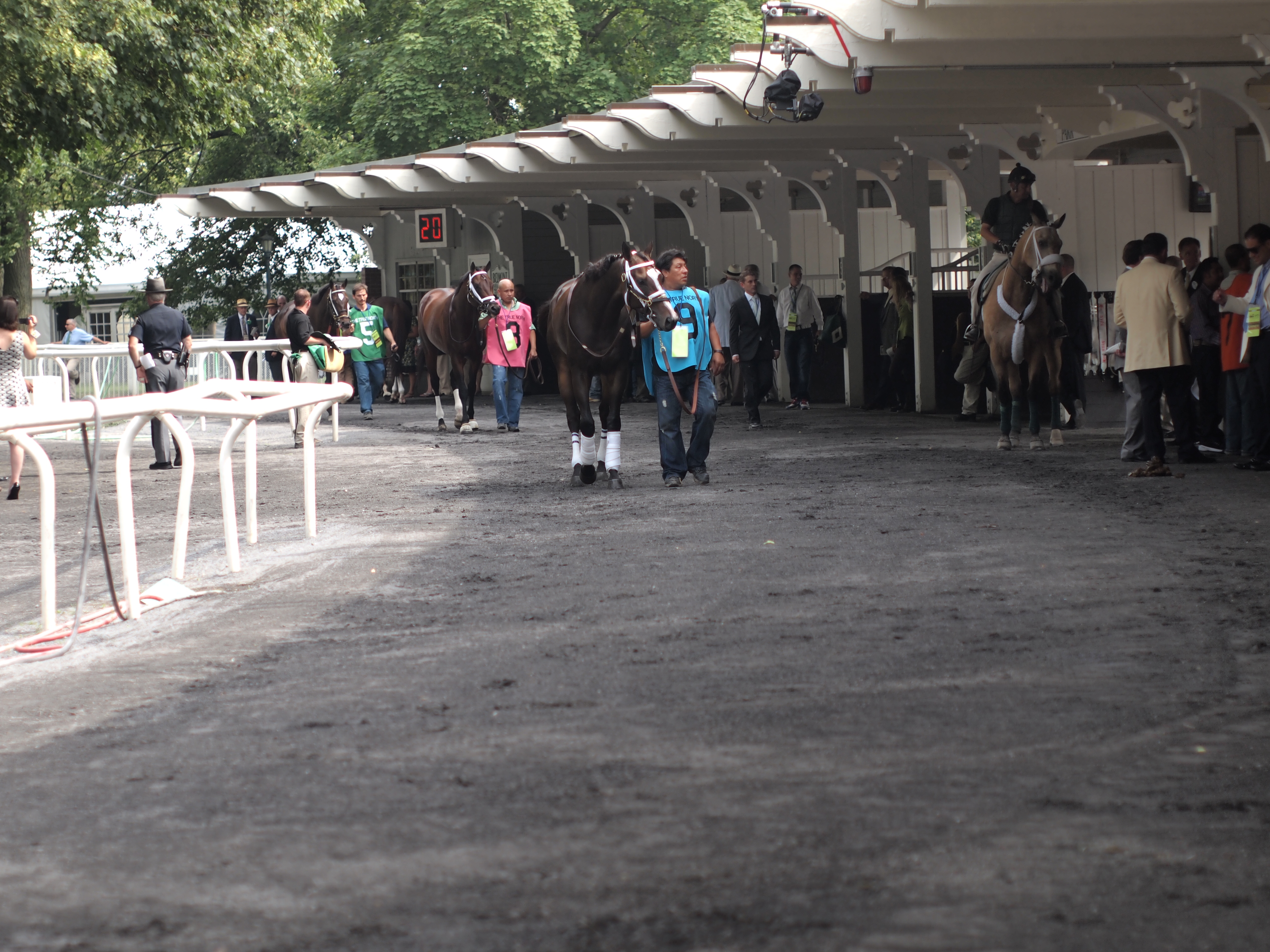 Images taken at Belmont Park on Belmont Stakes day, June 5, 2010